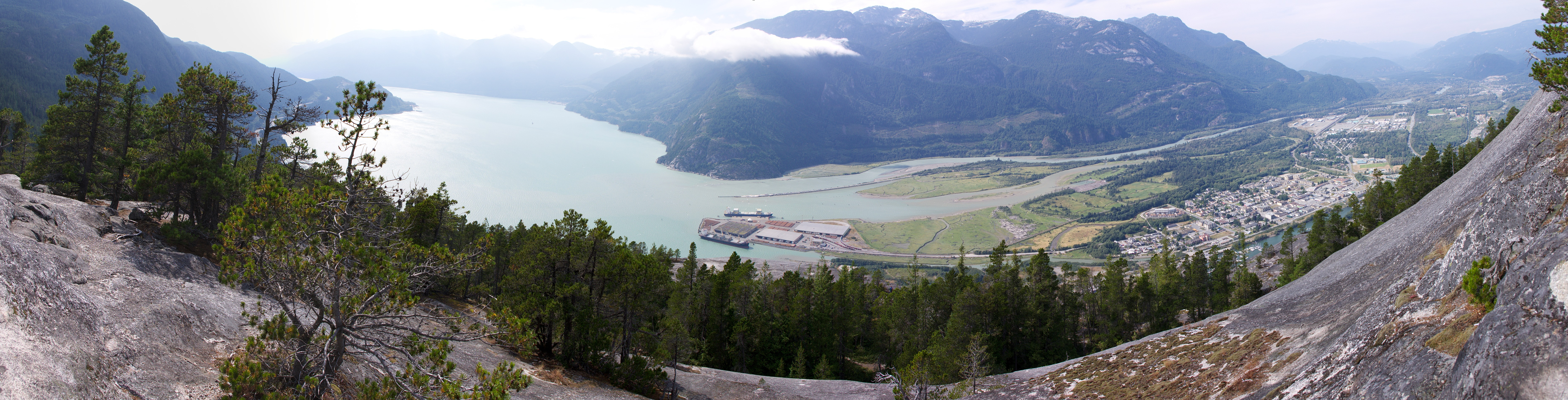 Panorama from First Peak on the Stawamus Chief